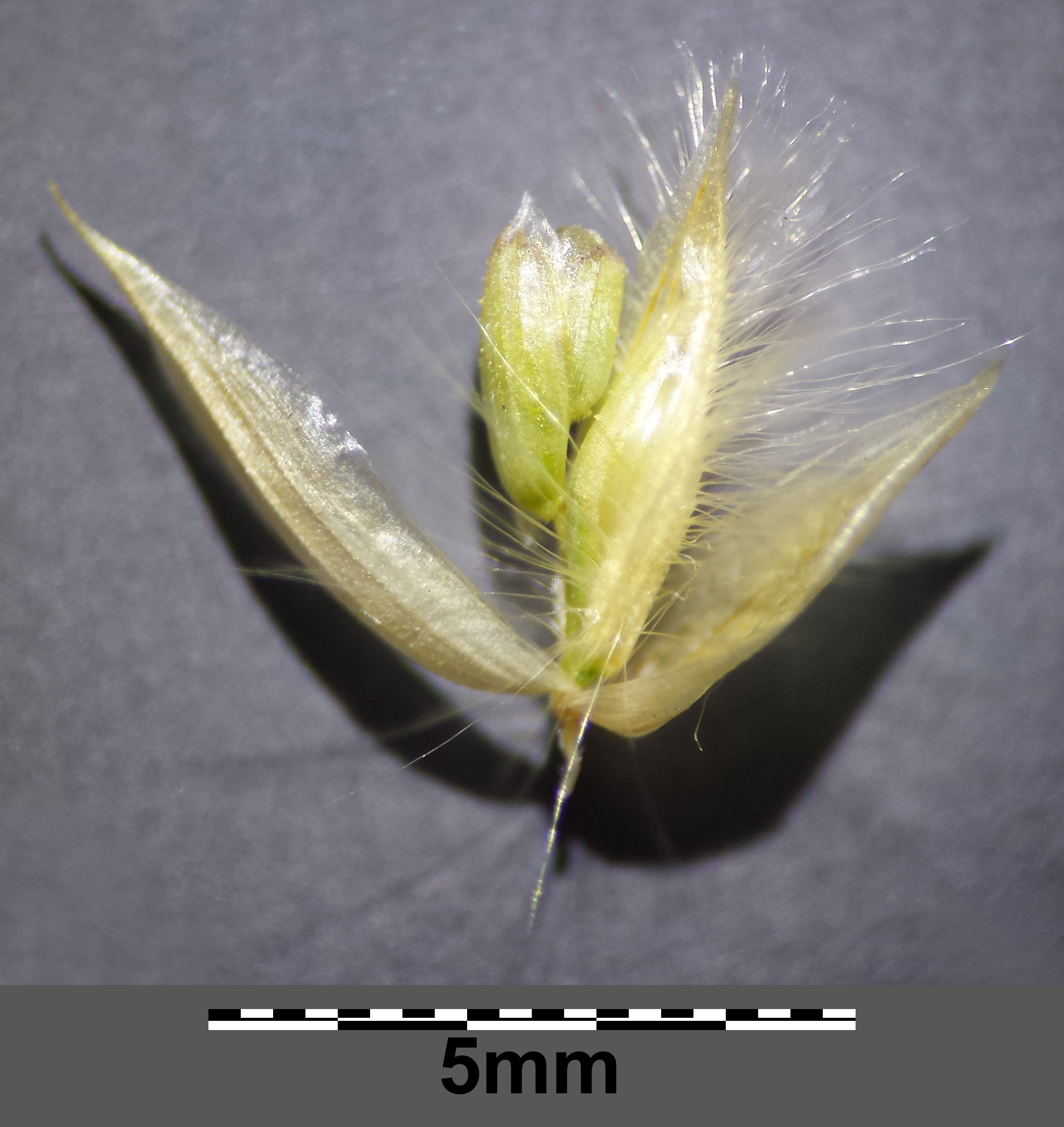 Spikelet Taxonym: Melica ciliata subsp. ciliata ss Fischer et al. EfÖLS 2008 ISBN 978-3-85474-187-9 Location: Neue Donau, district Korneuburg, Lower Austria - ca. 160 m a.s.l. Habitat: stone area